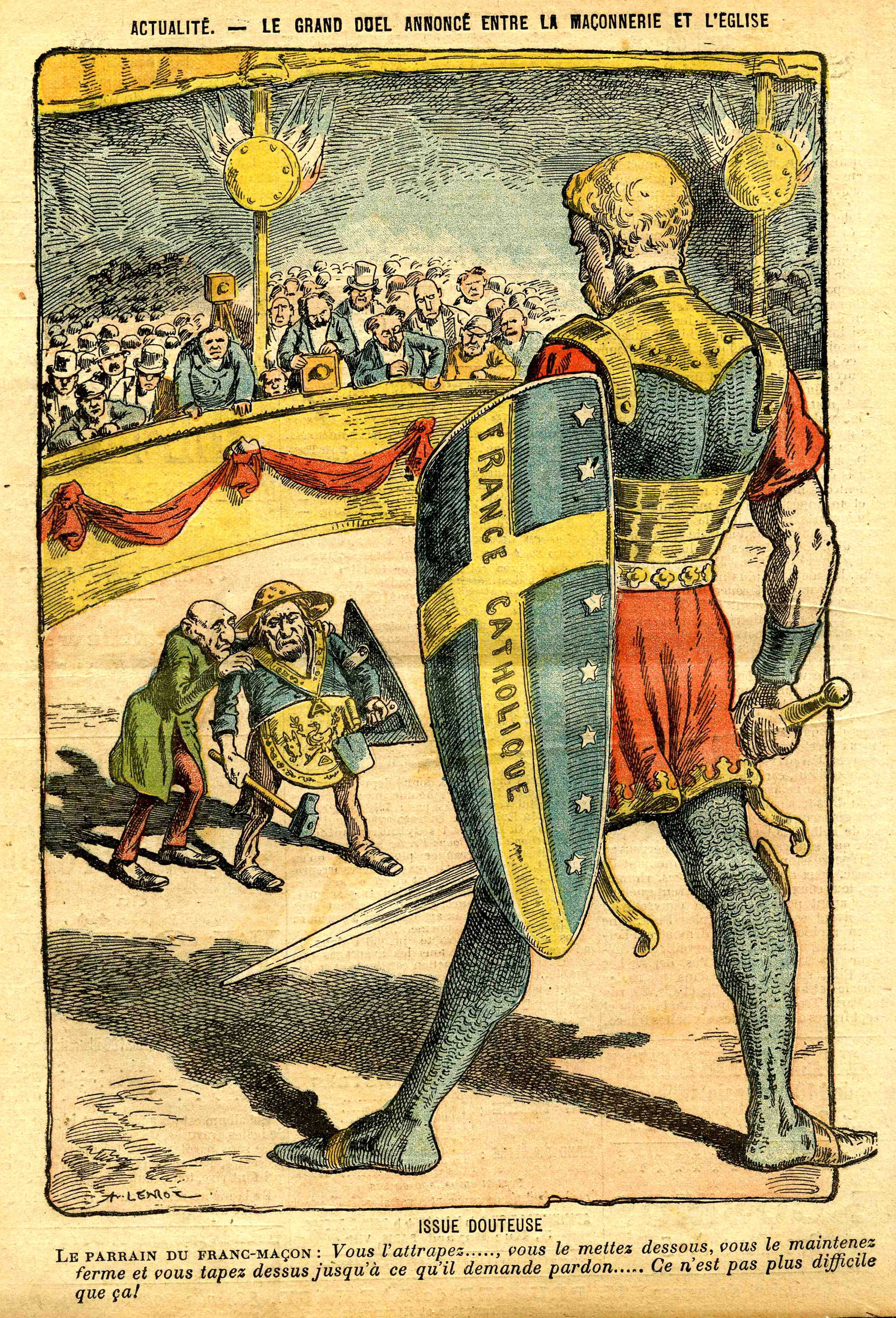 Caricature by French illustrator Achille Lemot